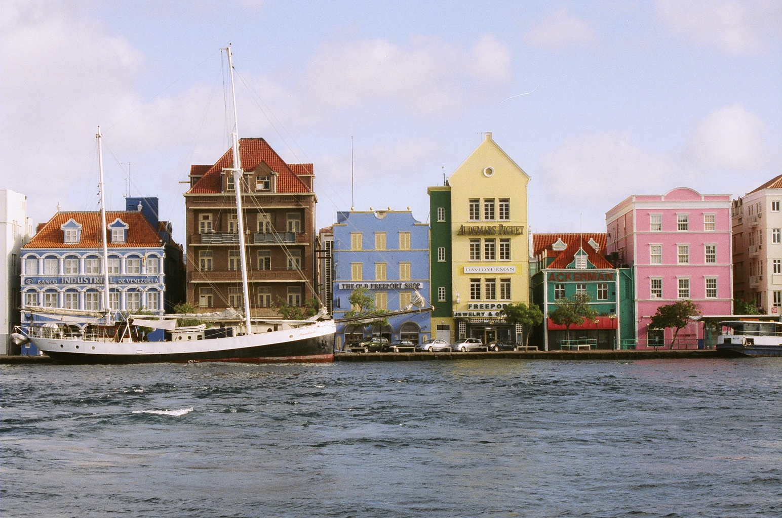 own work